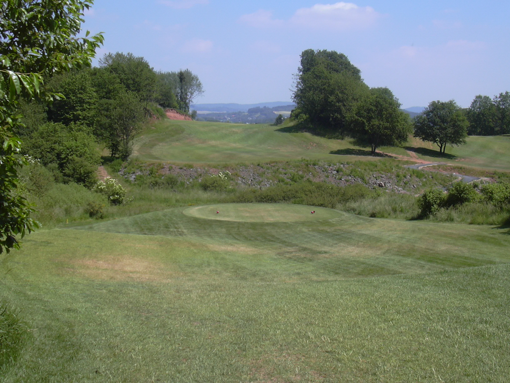 St. Wendel Golf Course, Hole 14 (Saarland/Germany)